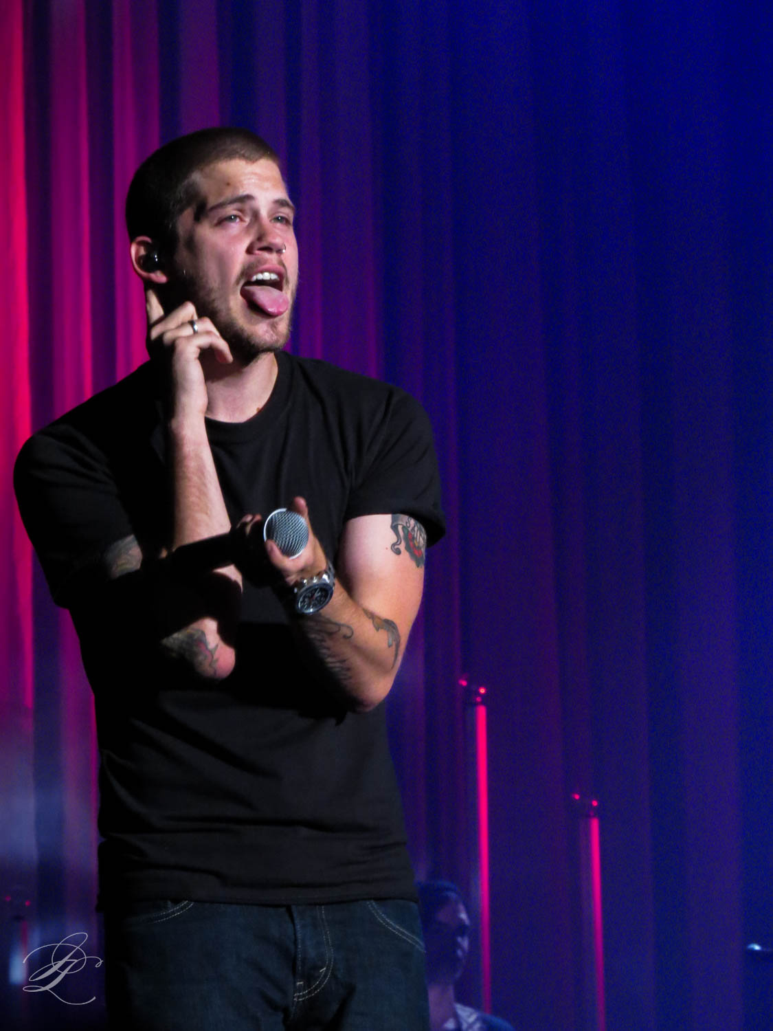 Tony Oller of MKTO performs at the Pepsi Center in Denver, CO on September 25, 2014.